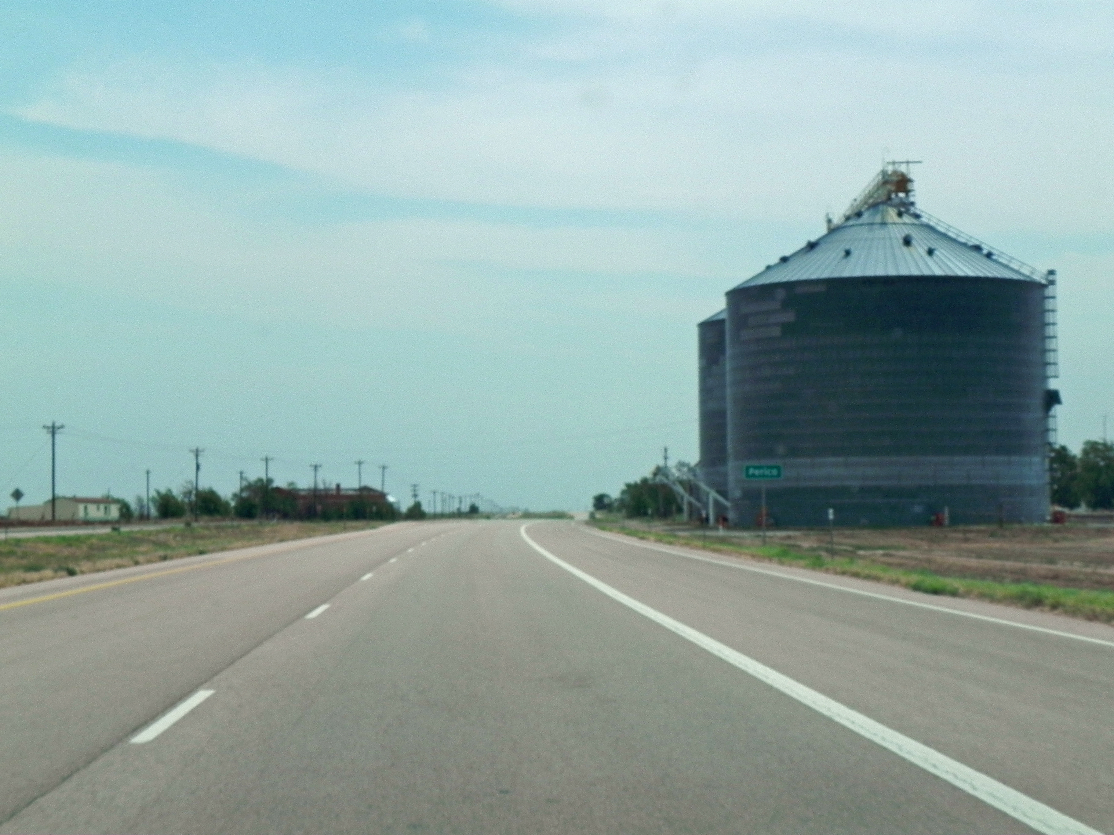 Perico, Texas viewed from U.S. highway 87